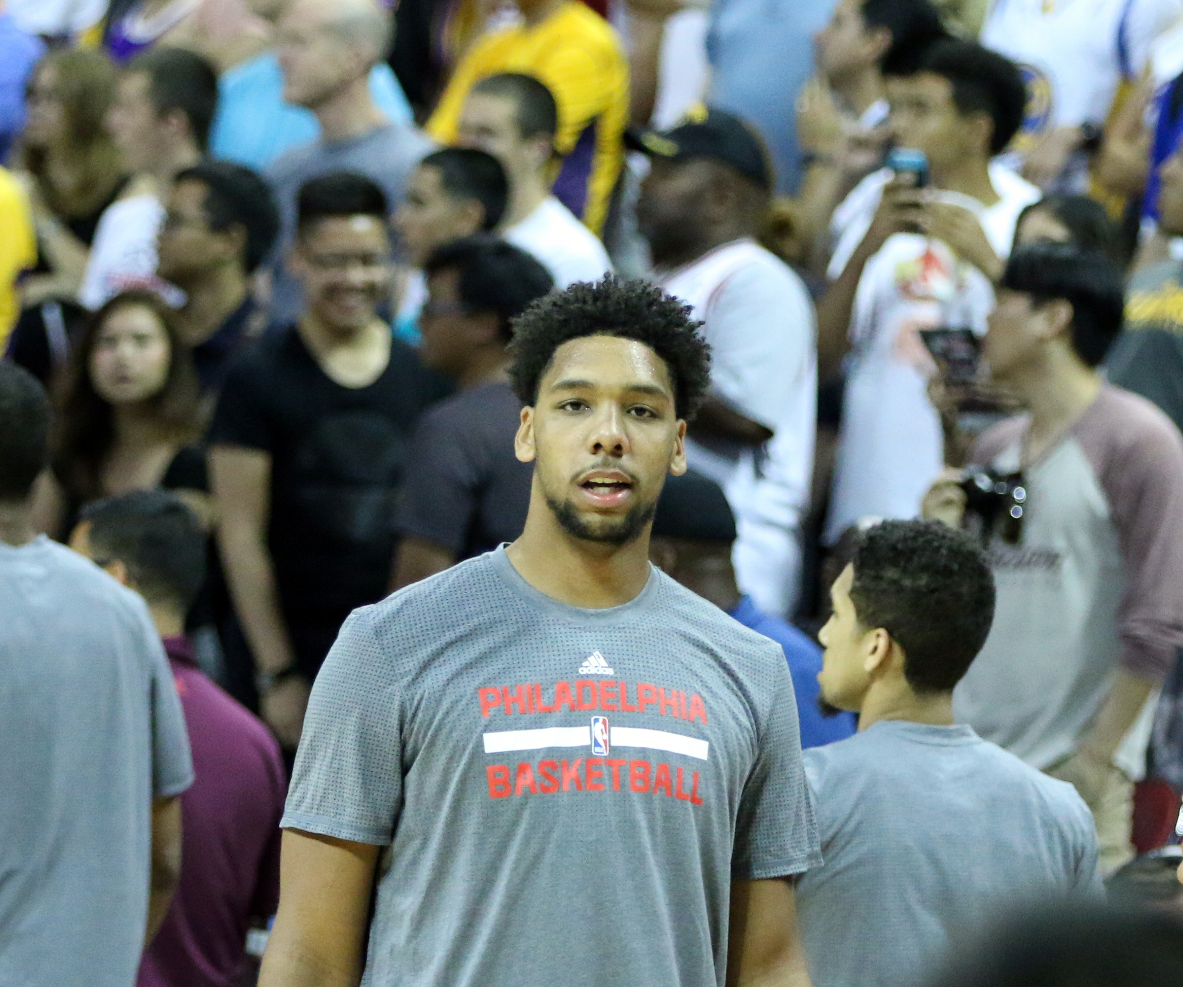 Jahlil Okafor during the 2015 NBA Summer League